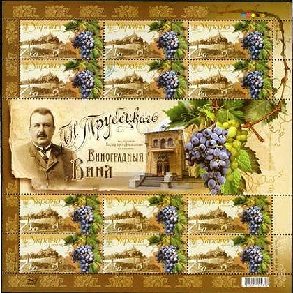 Stamp of Ukraine